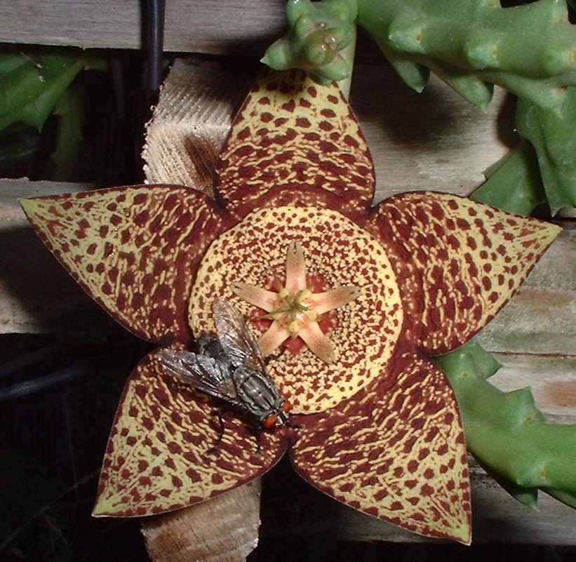 Flower and house fly. Native to Southern Africa. Stapelia genus are nicknamed "carrion flowers."